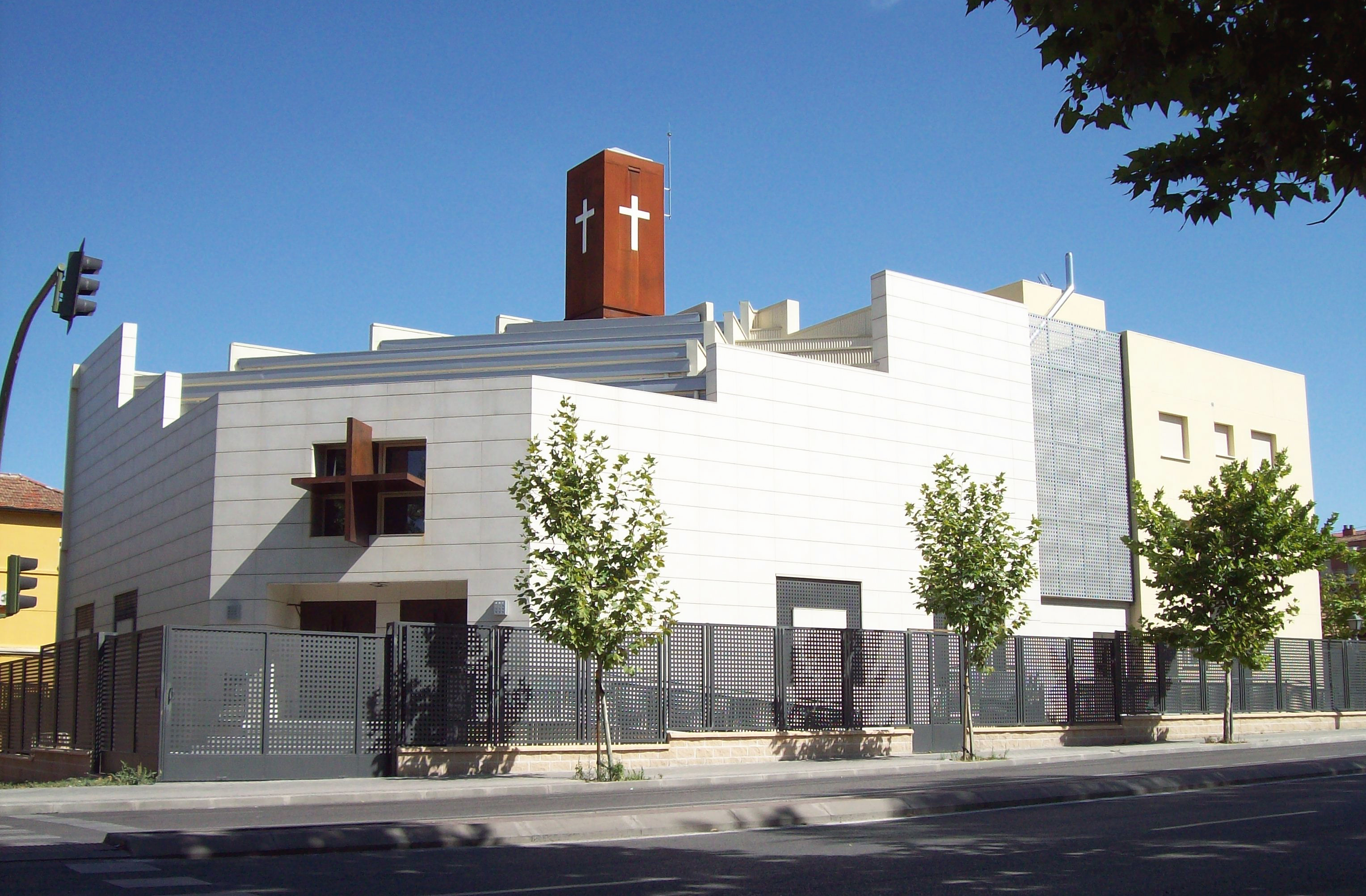 Façade of St. Fermin's Parish Church at 10th Avenida de San Fermín (street) in Usera district in Madrid (Spain).